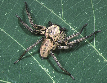 male Thelcticopis severa from Okinawa.